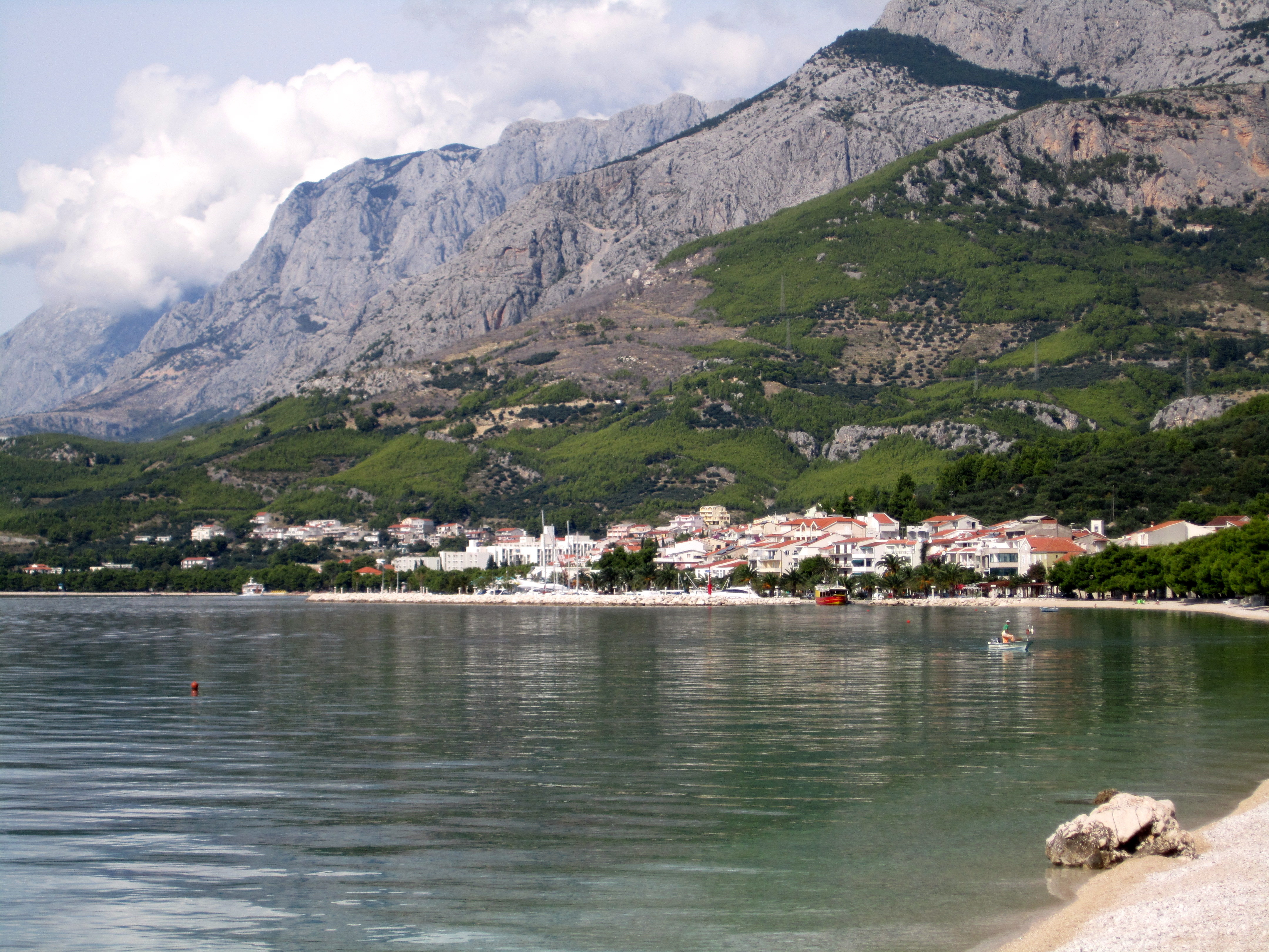 Tucepi (Croatia)